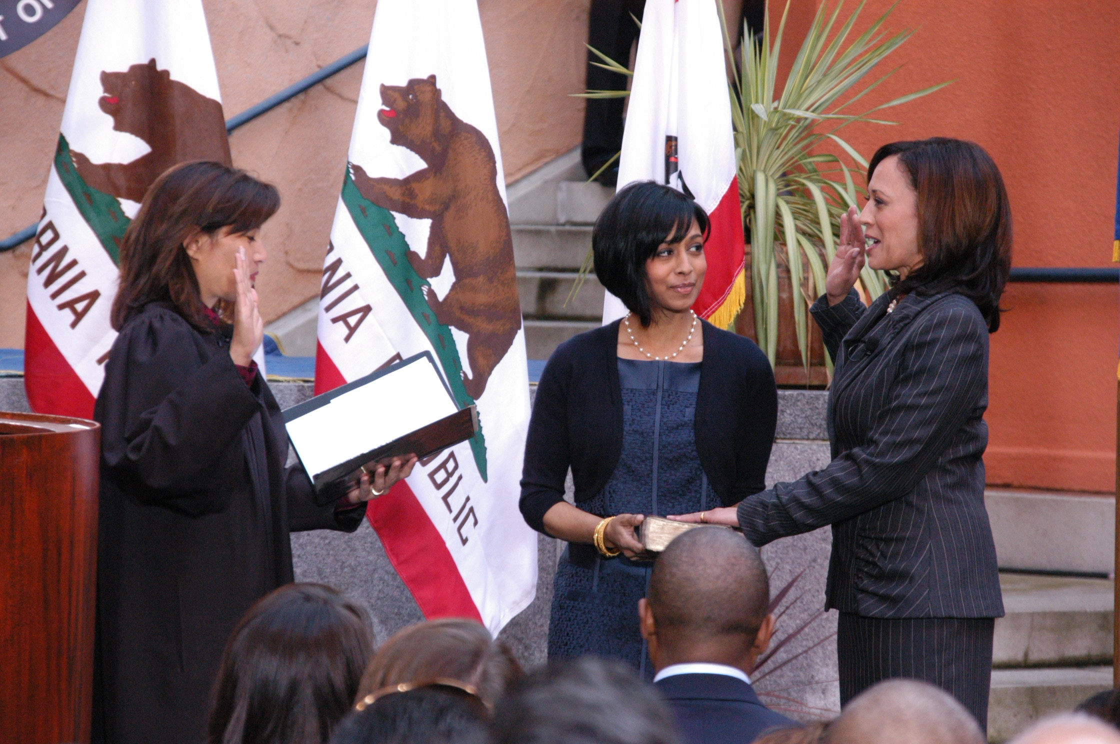 California Attorney General Kamala Harris was sworn into her second term in office by California Supreme Court Chief Justice Tani Cantil-Sakauye, as her sister Maya looked on. (office of Attorney General photo)